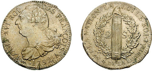 France. Louis XVI de France. 1774-1793. Æ Double sol constitutionel (24.16 g, 6h). Paris mint, Alexander Louis Roettiers de Montaleau mint master, Augustin Dupré engraver. Dated L'an 4 de la Liberté and 1792. Bare-headed and draped bust left; lion passant below Fasces surmounted by Liberty cap, 2 S across field; all within wreath; date in exergue. Duplessy 1722; Ciani 2249; KM 603.1. EF, trace of underlying luster. Attractive last year as king. ($400) Apparently a mule, since this mintmaster employed a cornucopiae as the privy mark for years 4 and 5. In 1792 the early reverses of the French army in the war with Austria and Prussia and threat of the Duke of Brunswick to destroy Paris if the royal family were harmed infuriated the Paris sans-culottes. The king and his family were imprisoned on August 10 in the Temple, and in September, as the Prussians were defeated at Valmy, the Convention declared a Republic. Incriminating evidence against Louis was later found, and he was tried and found guilty by a unanimous vote. He was guillotined on 21 January 1793. Although the king's portrait is known on issues dated 1793, his rule ended with his imprisonment in 1792.